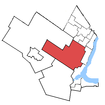 Map of the Halton electoral district. Based on Earl Andrew's maps, created by SimonP.